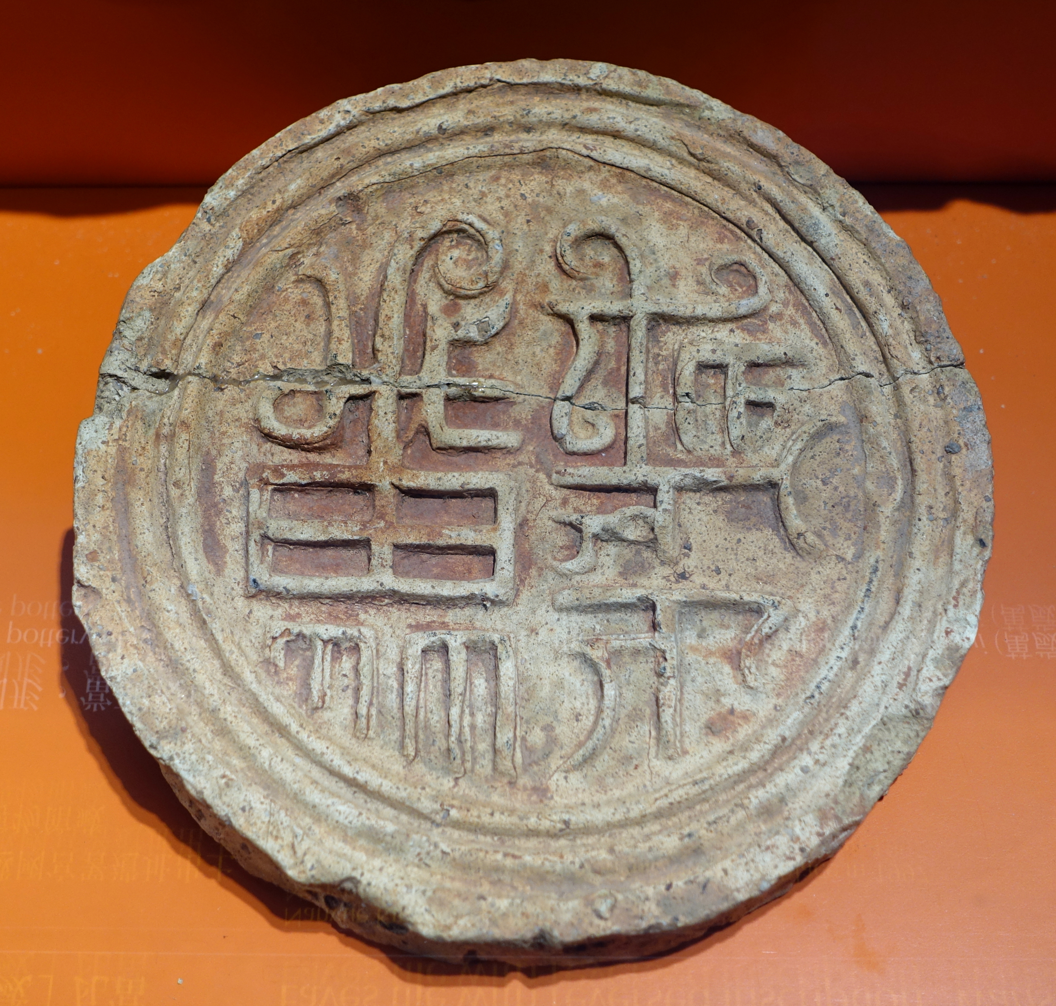 Exhibit in the Hong Kong Museum of History, Hong Kong. This artwork is old enough so that it is in the public domain.